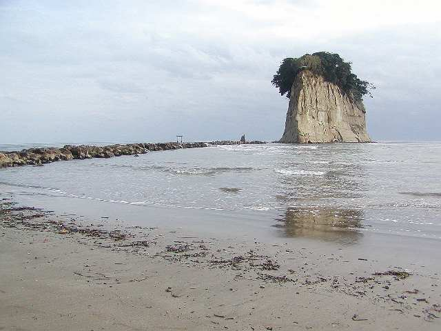 Mitsukejima Island in Suzu, Ishikawa, Japan.